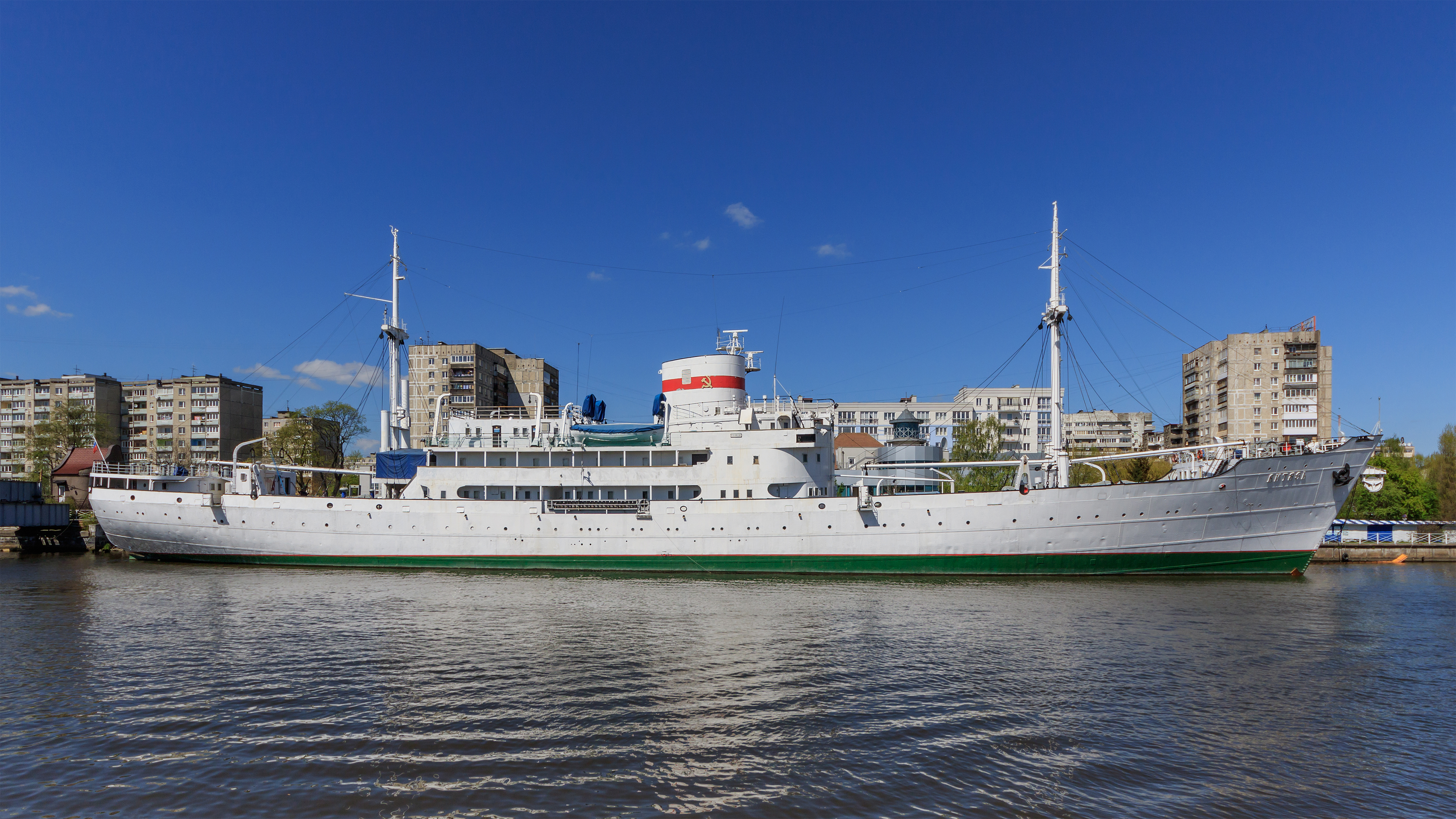 «Vityaz» research ship at the World Ocean Museum in Kaliningrad formerly Königsberg, Kaliningrad Oblast (Russia).